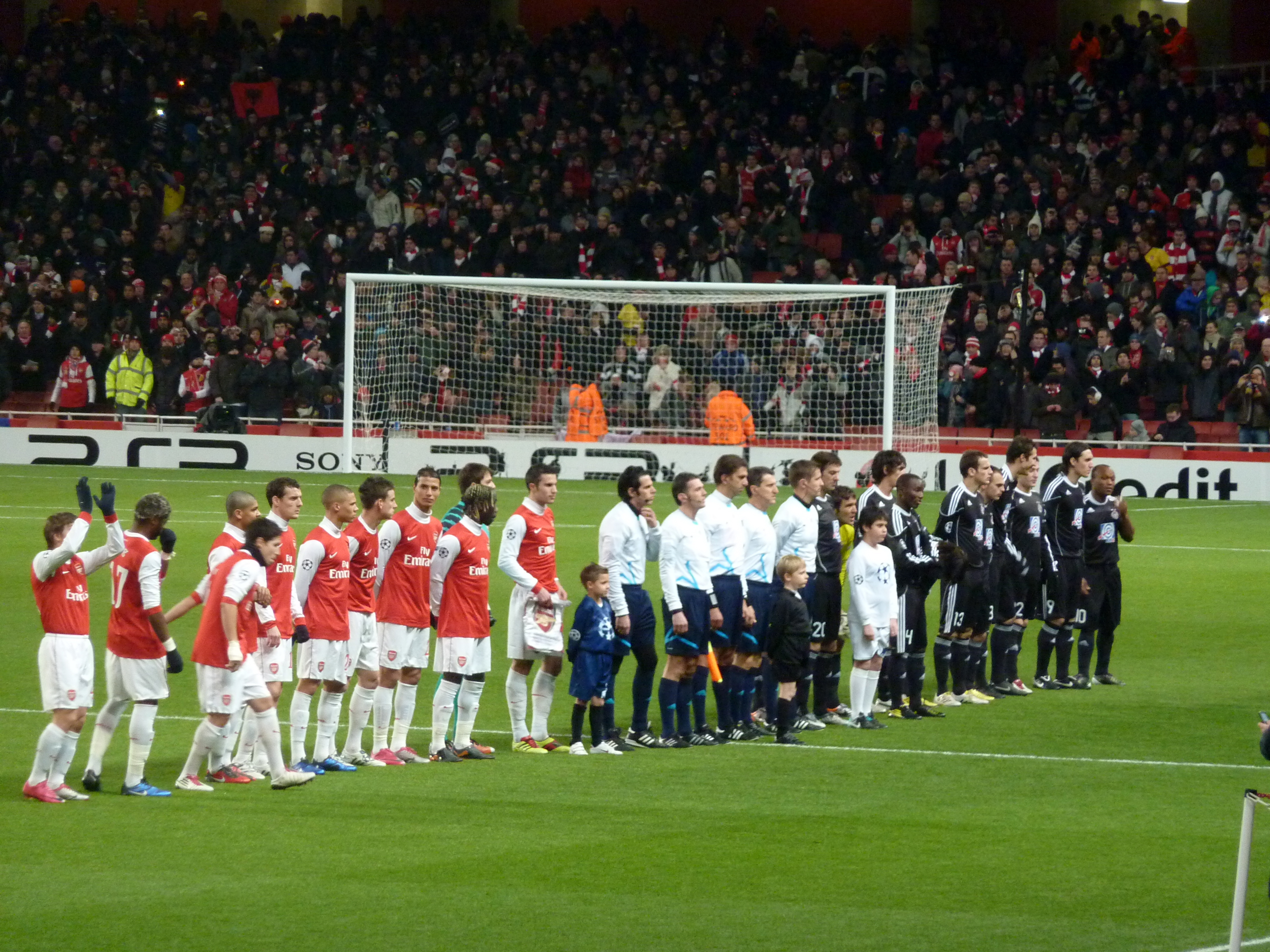 In the Champions League. We were second and needed to win this one.